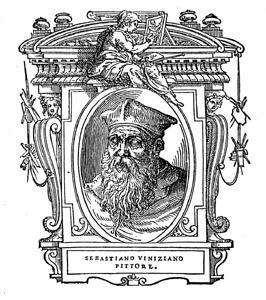 Illustratio from "Le Vite" by Giorgio Vasari, edition of 1568. For the artist portrayed see filename